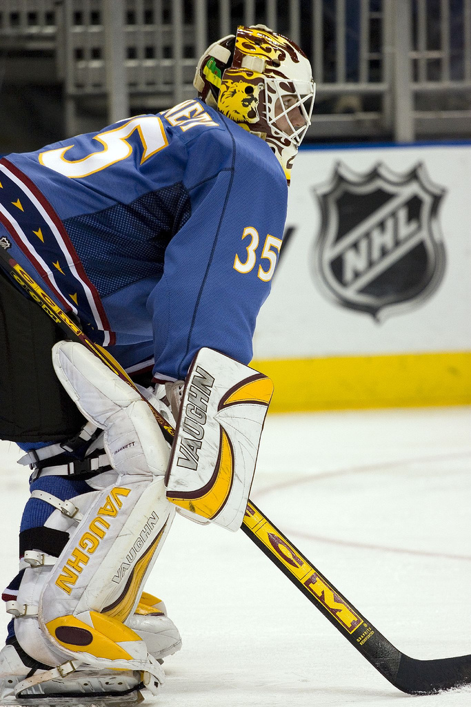 Michael_Garnett (Atlanta Thrashers), ice hockey goelatender